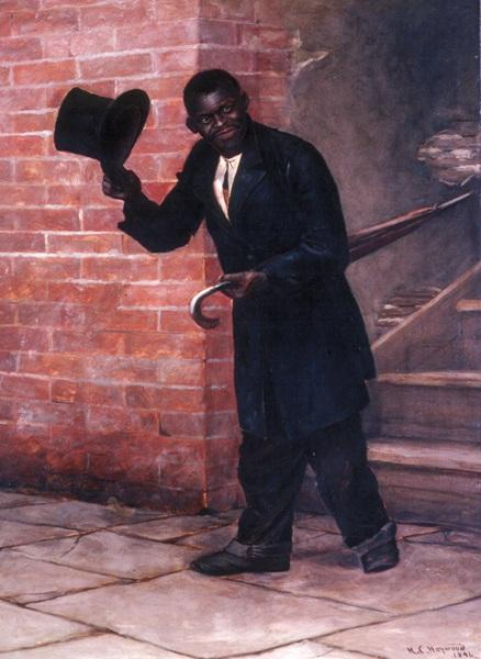 A portrait of Doc Brown made by M.C. Haywood in 1896, now hangs in the Kansas City Museum